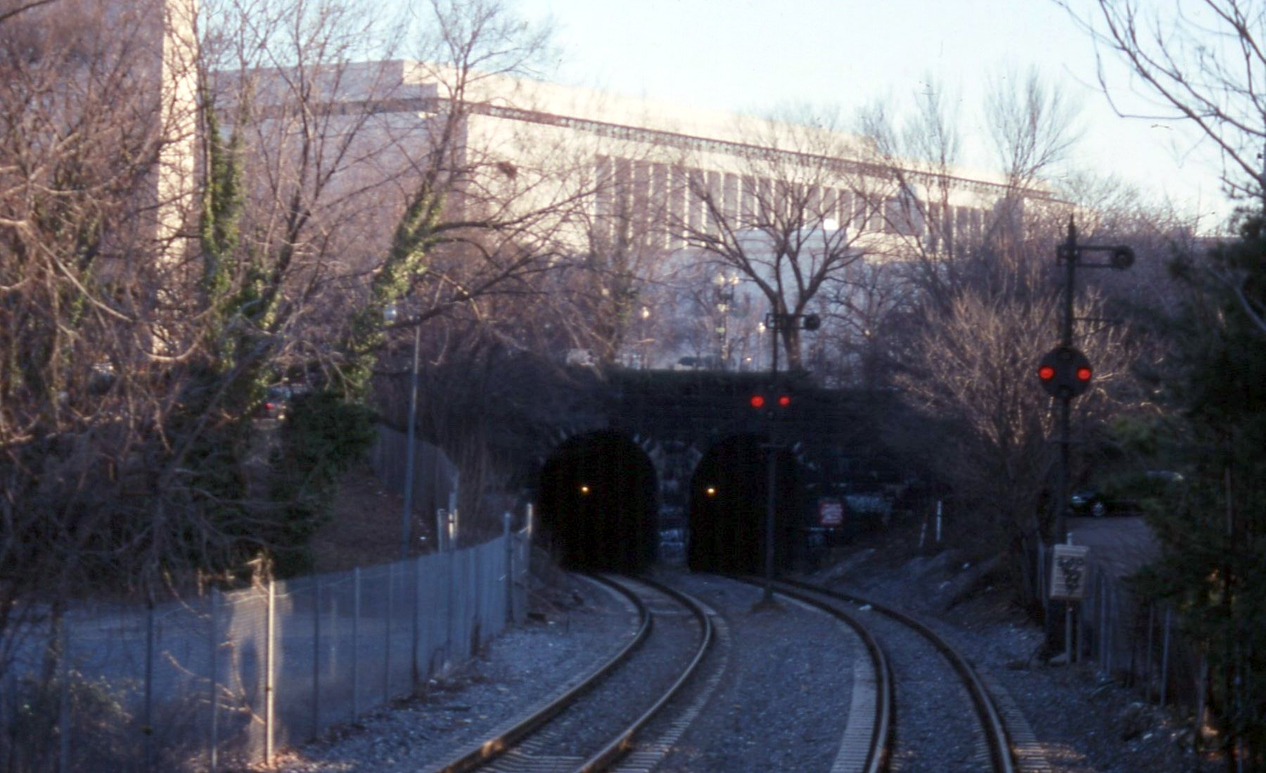 19990205 05 First Street Tunnel, Washington, DC